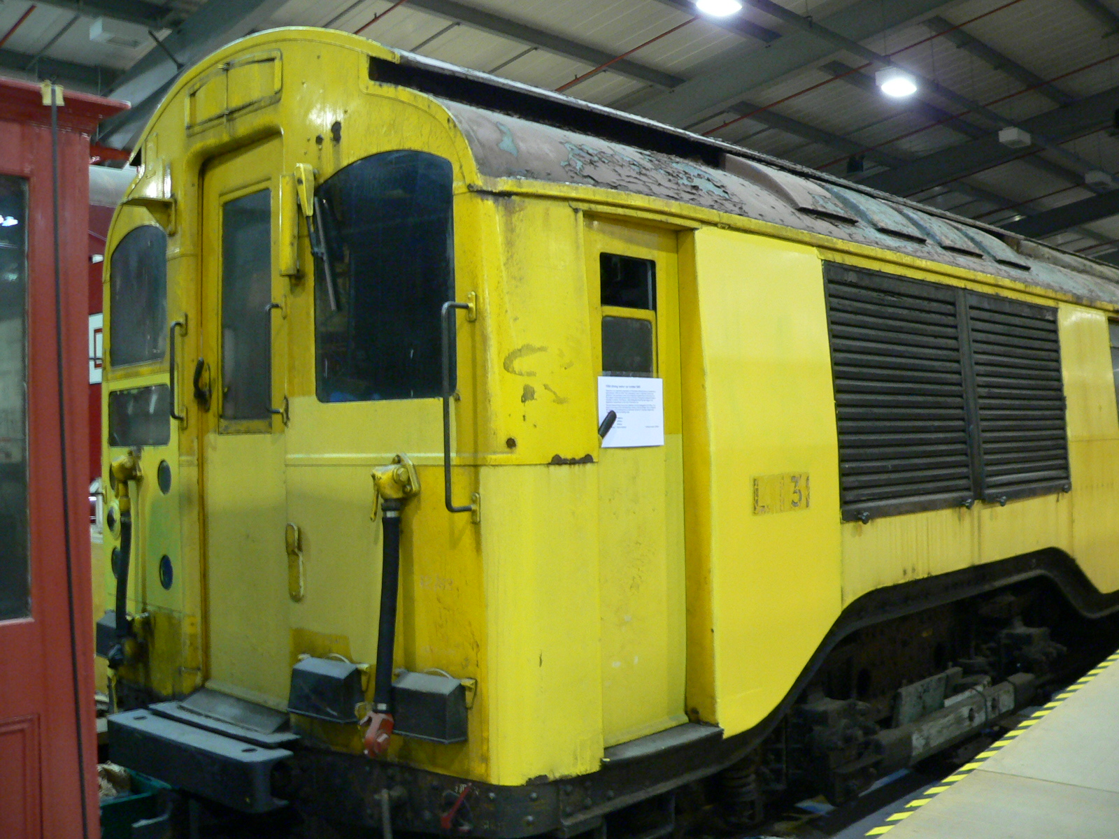 Photographed at London's Transport Museum Depot on 22 October 2005.